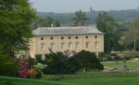 Pencarrow house, also a museum